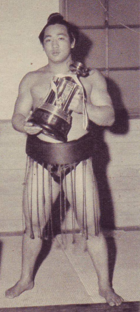 Tochinoumi Teruyoshi. taken in 1961.